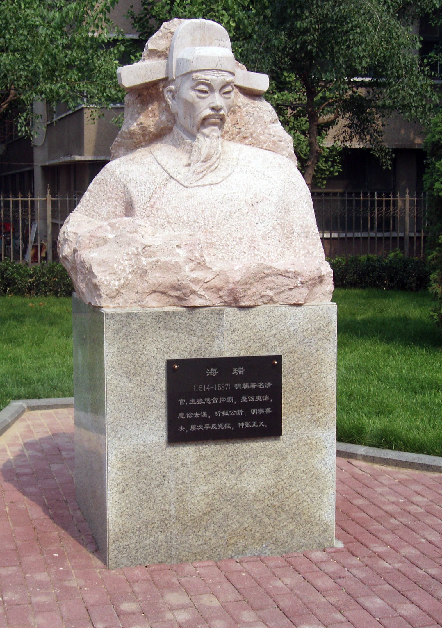 Statue of Hai Rui, a principled Ming Dynasty bureaucrat, and an Ancient Chinese celebrity